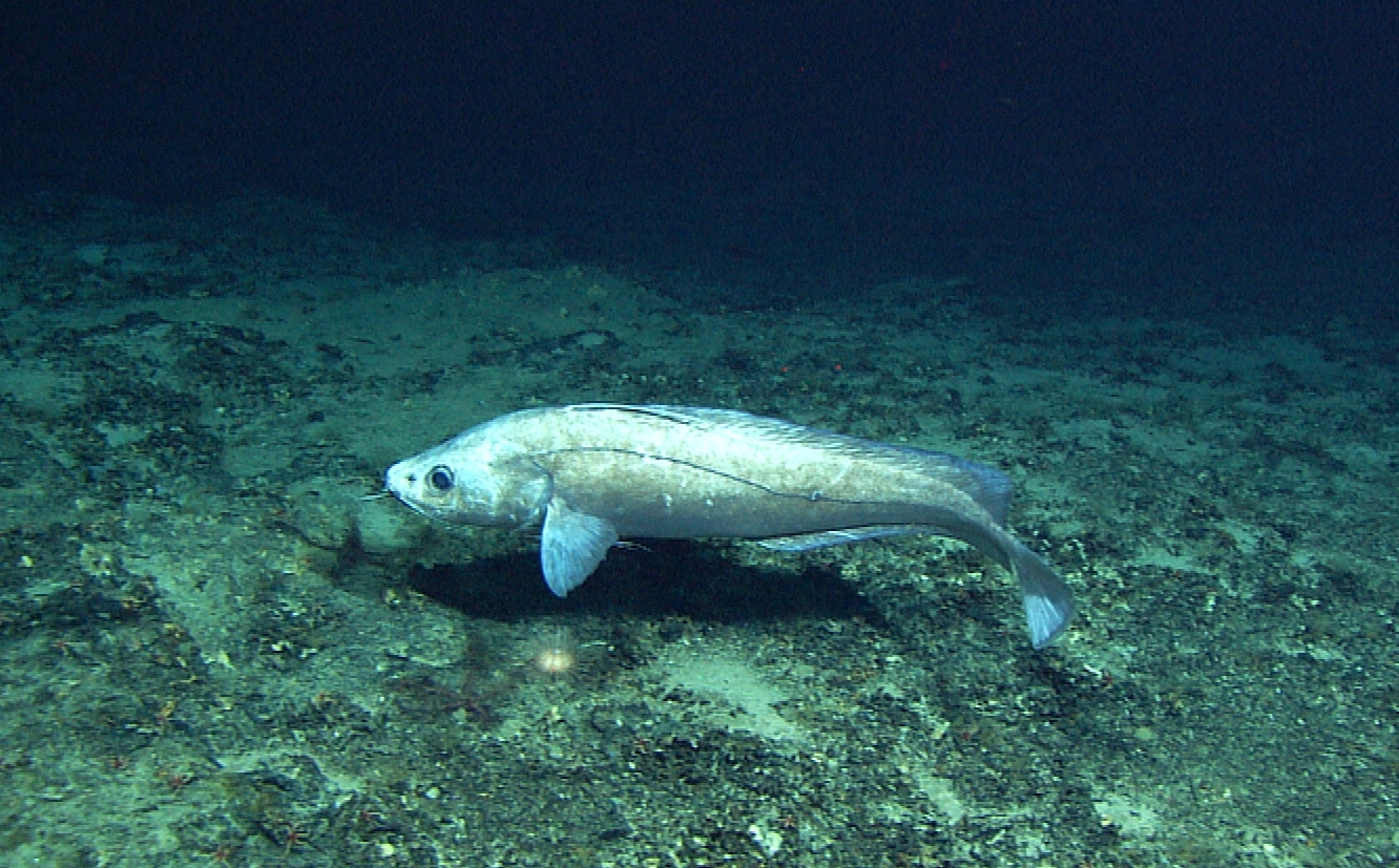 Antimora rostrata North Atlantic Stepping Stones Expedition 2005.